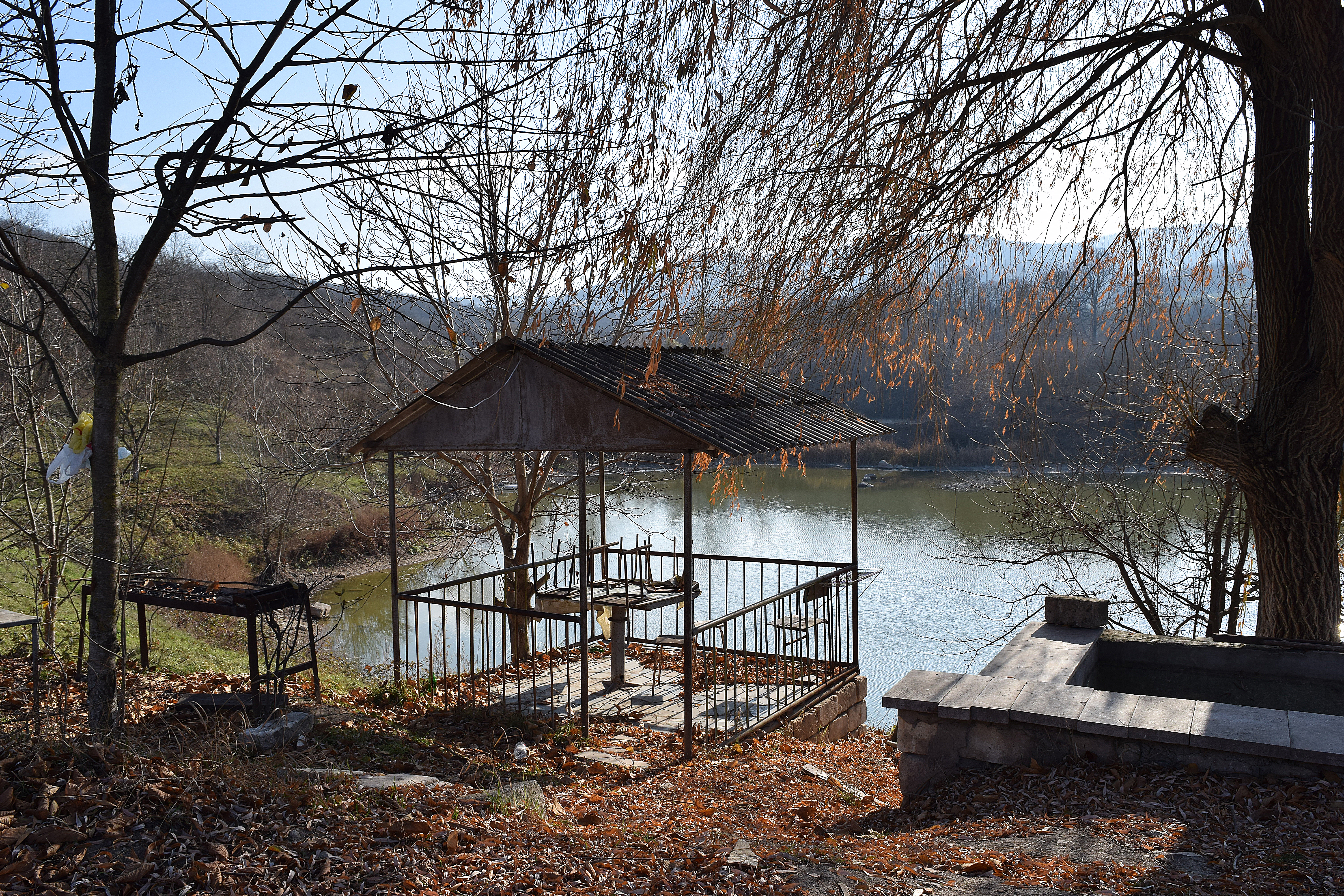 Sight in Qrasni village